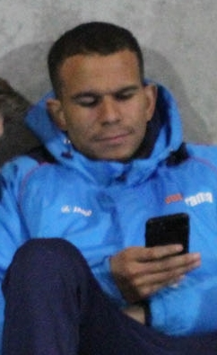 Connor Brown attending York City's match against F.C. United of Manchester at Broadhurst Park, Manchester on 17 April 2018